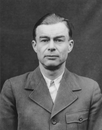 Portrait of Siegfried Ruff as a defendant in the Medical Case Trial at Nuremberg.